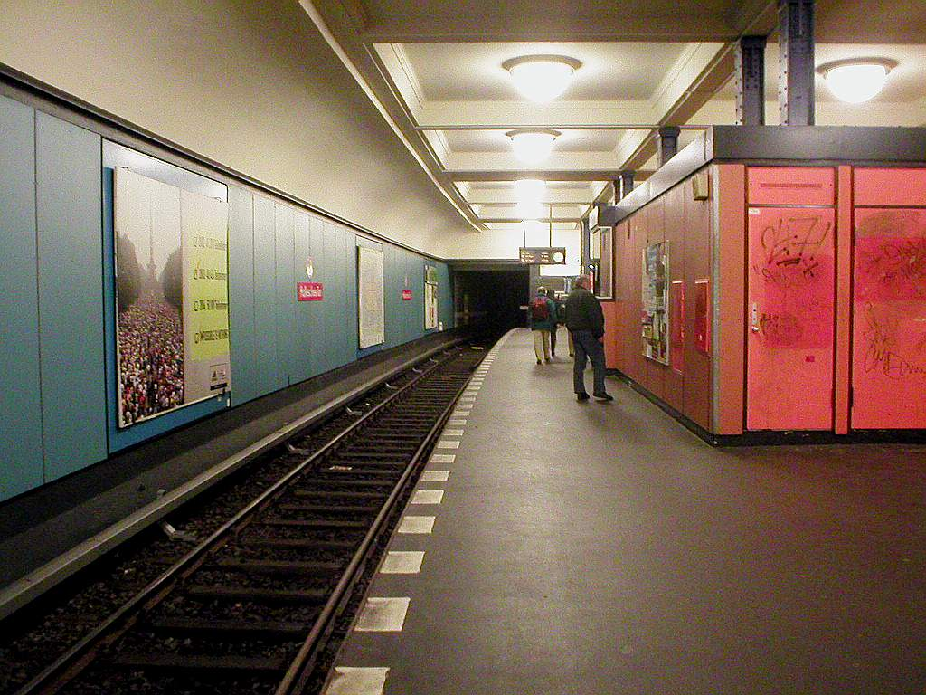 The Berlin U-Bahn station Hallesches Tor, line U6